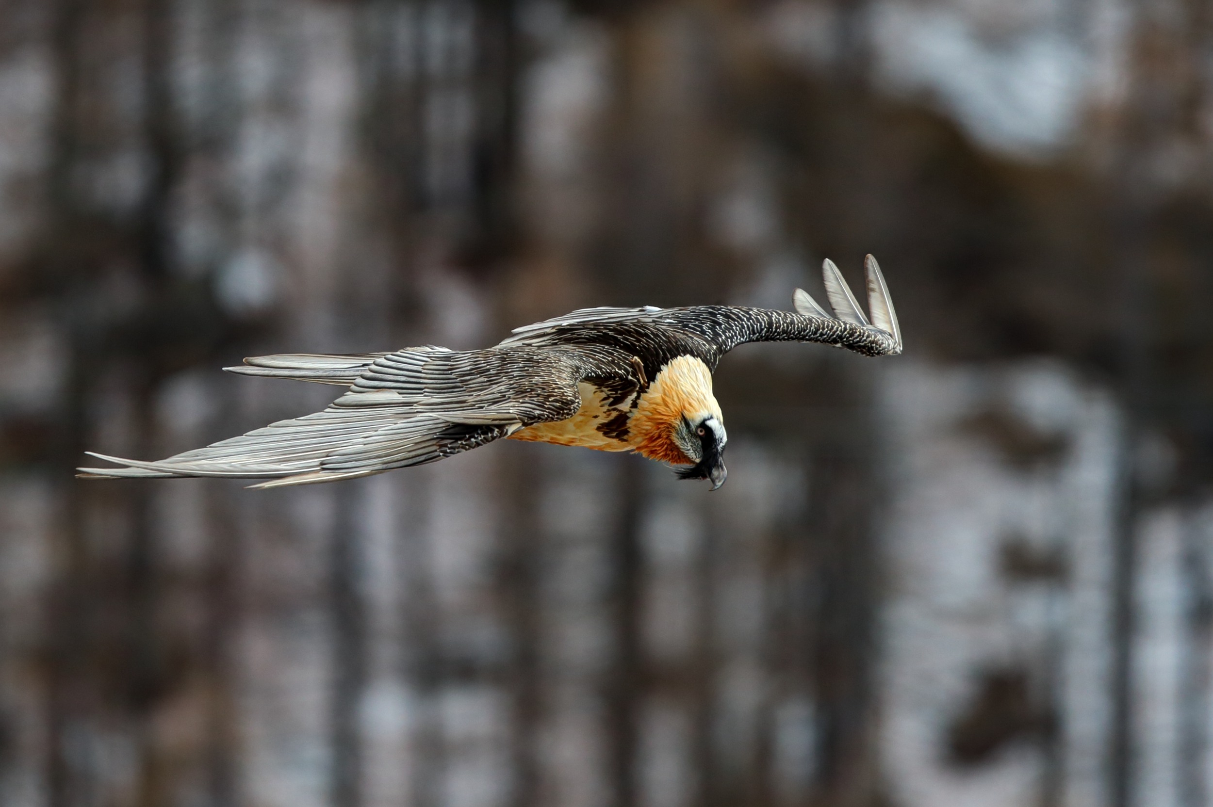 Gypaetus barbatus in flight. Gran Paradiso National Park